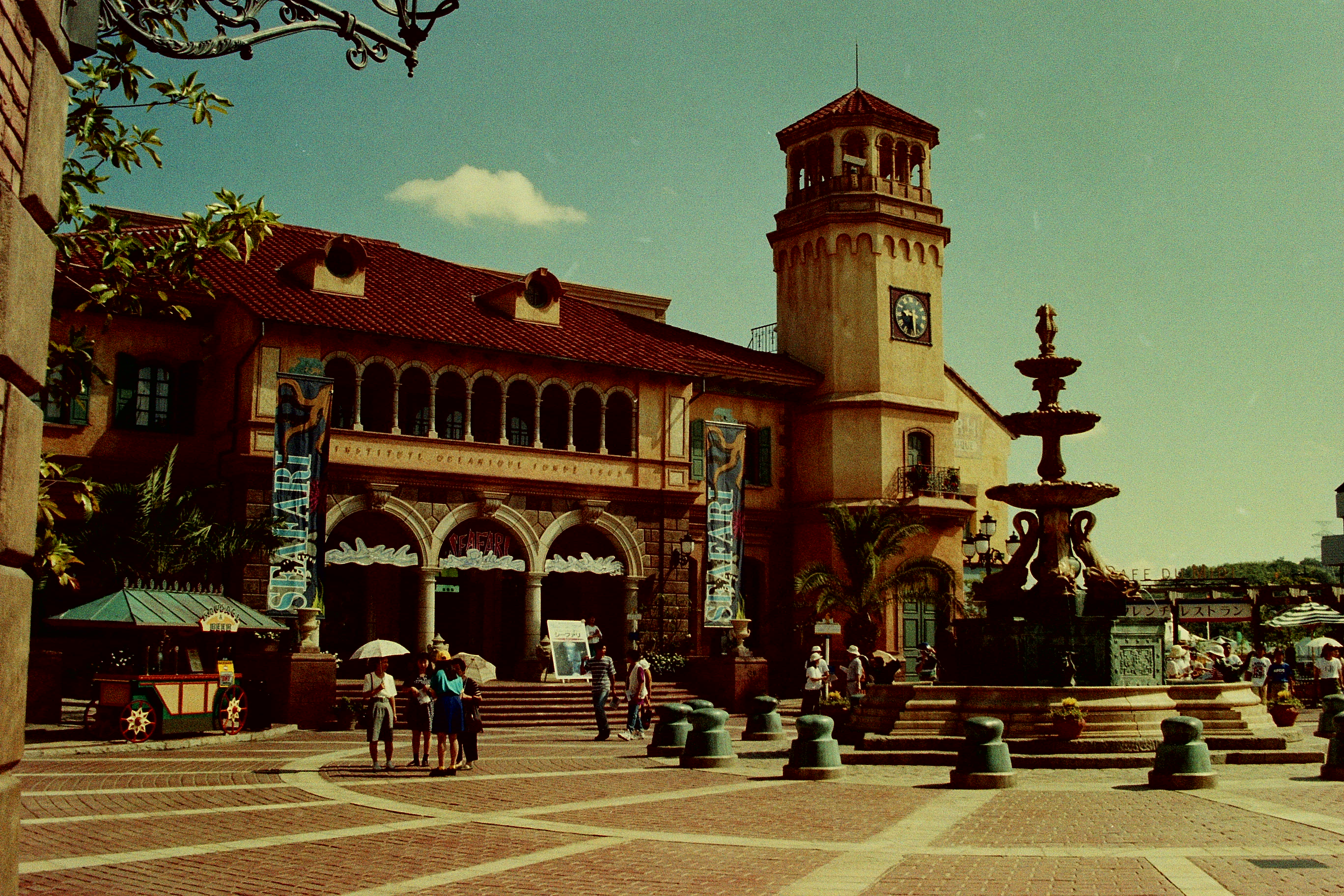 View across the plaza toward the entry of the Seafari simulator ride in Porto Europa.